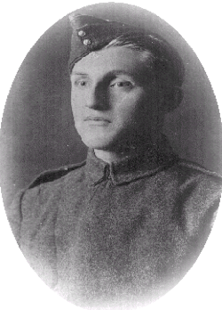 Walter Callow, Halifax, Nova Scotia